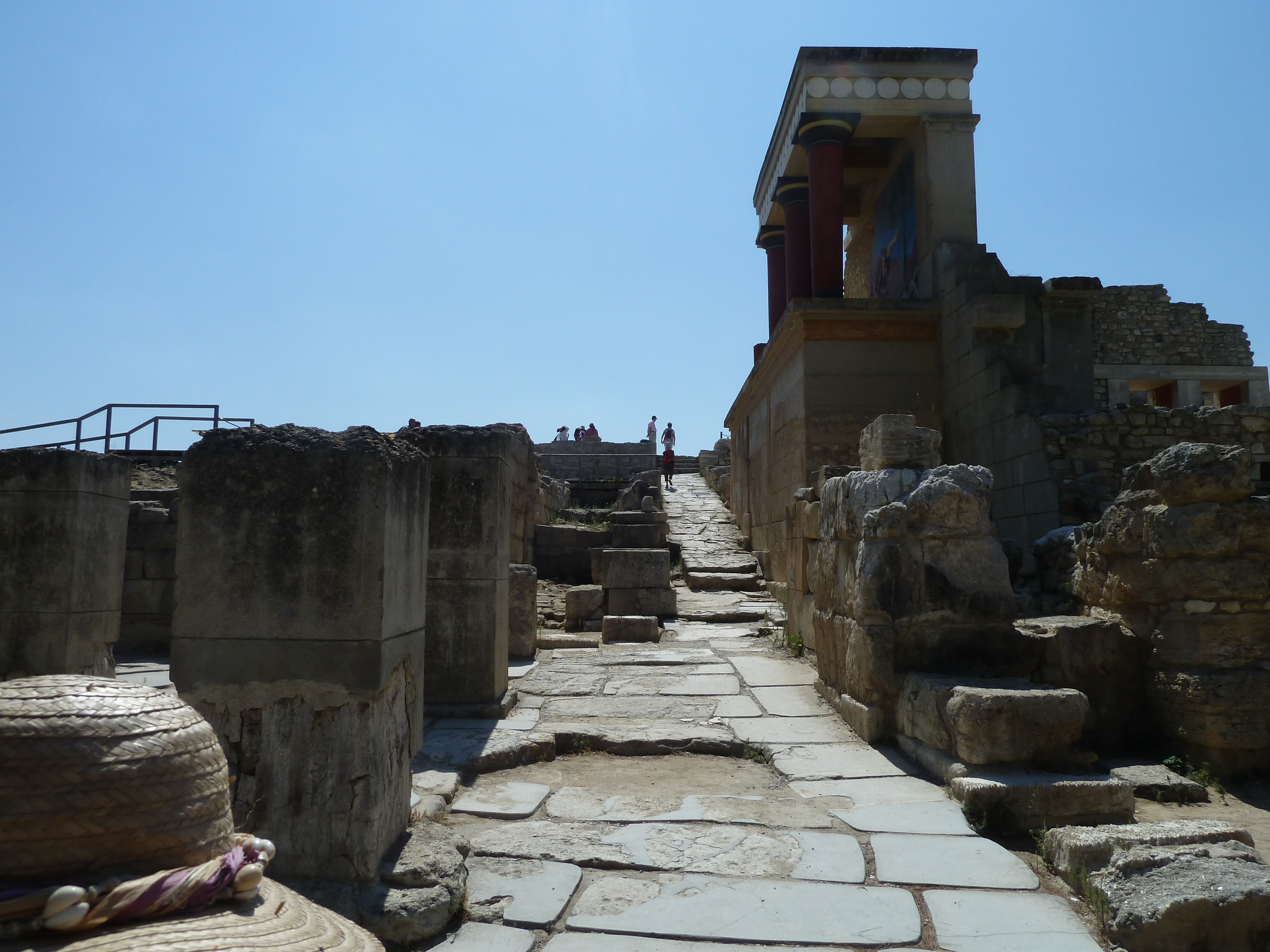 Minoean Pallace, Knossos, Crete, Greece